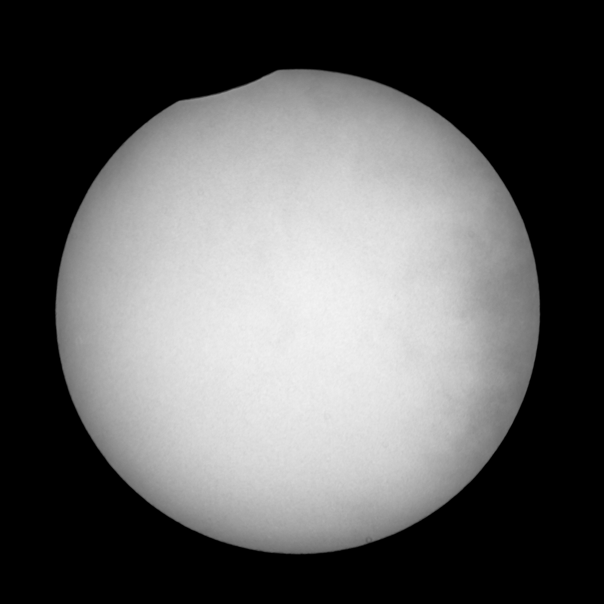 The Great 2018 Australian Solar Eclipse